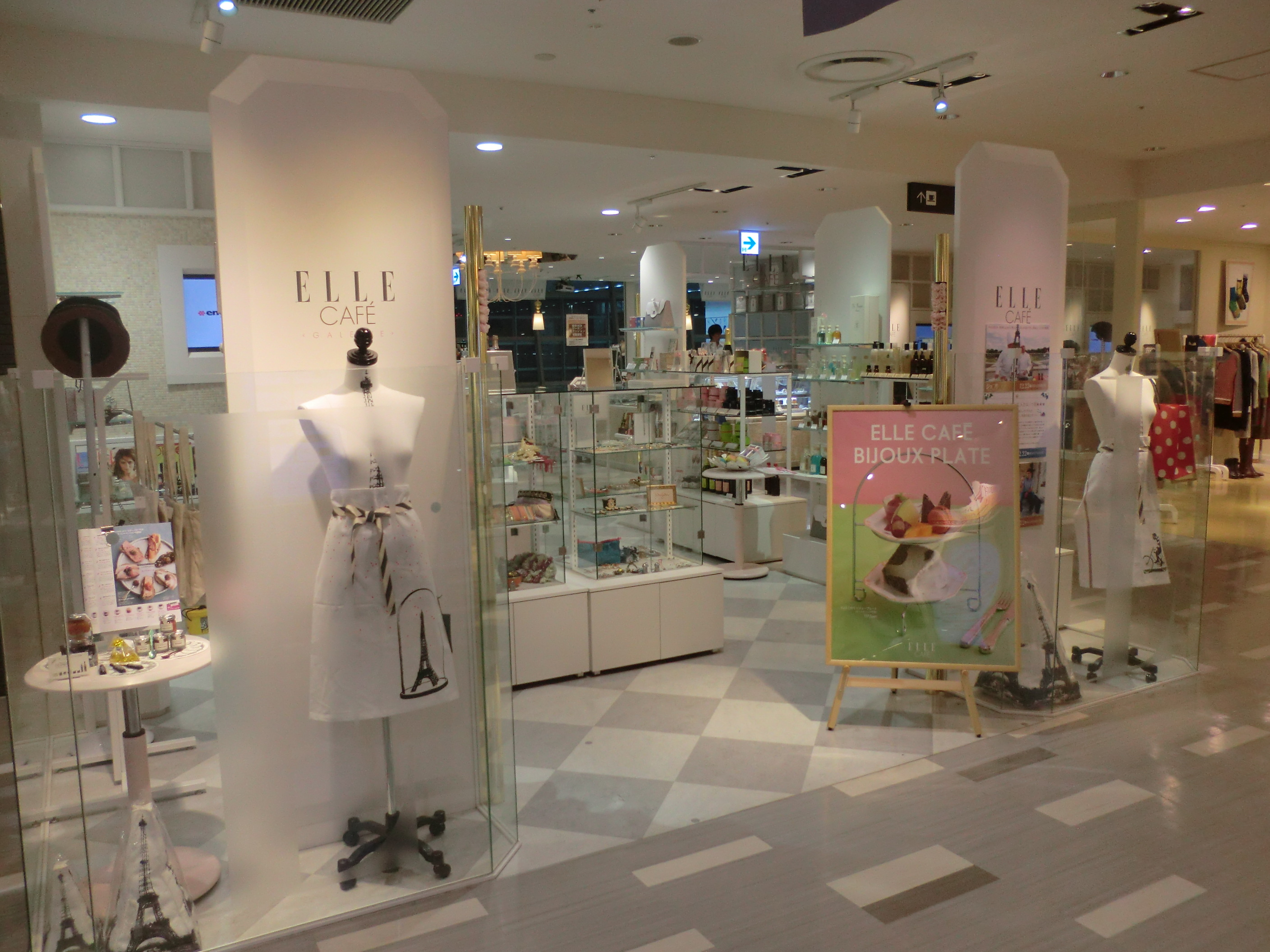 "ELLE CAFÉ", official café of ELLE in JR Hakata city of Fukuoka,Japan.